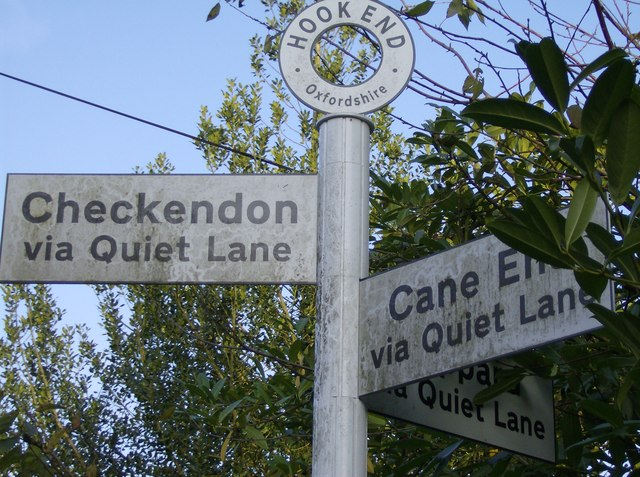 Roadside fingerpost at Hook End, in the civil parish of Checkendon, Oxfordshire, England.